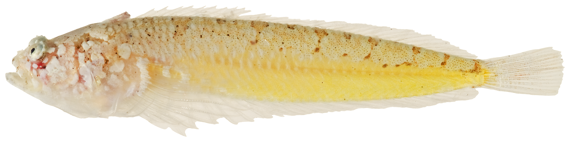 Gillellus uranidea Böhlke, 1968—warteye stargazer, 27.7 mm SL. Photo by JT Williams.